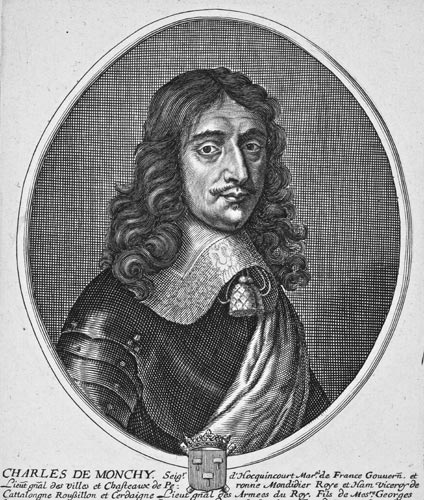 ArtistUnknownTitle